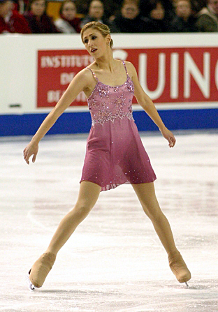 Amber Corwin competes her free program at the 2004 Four Continents Championships in Hamilton, Ontario, Canada. author: vesperholly